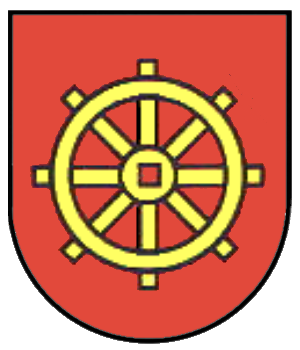 Old coat of arms of Mühlingen